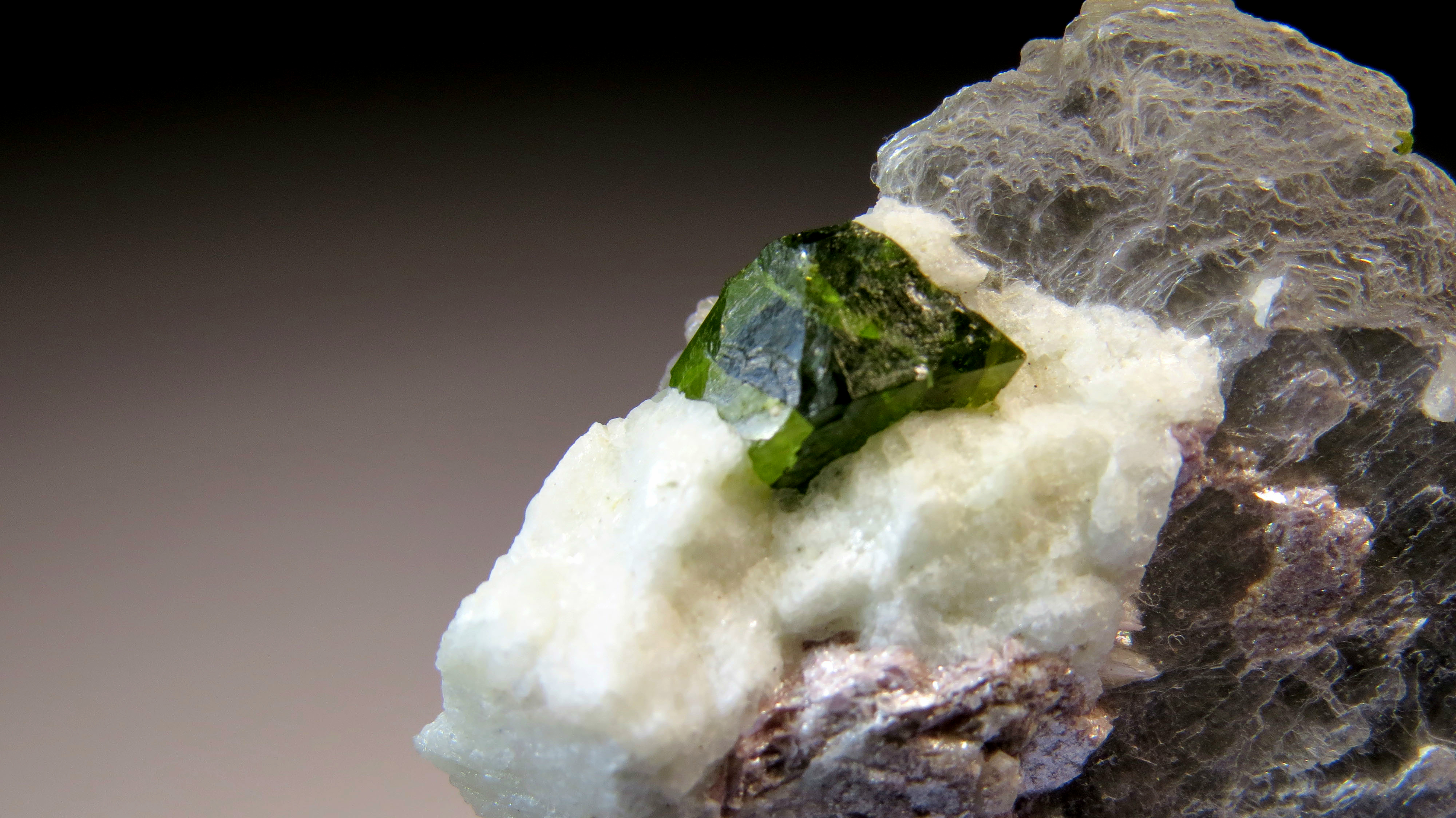 Gahnite Dimensions: 42mm x 38mm x 5mm Locality: Carnaúba dos Dantas, Borborema mineral province, Rio Grande do Norte, Brazil A Gahnite of excellent color and crystallization, in the matrix of albite with muscovite, of the locality of the Mirador claim, Carnaúba dos Dantas, Borborema mineral province, Rio Grande do Norte, Brazil.